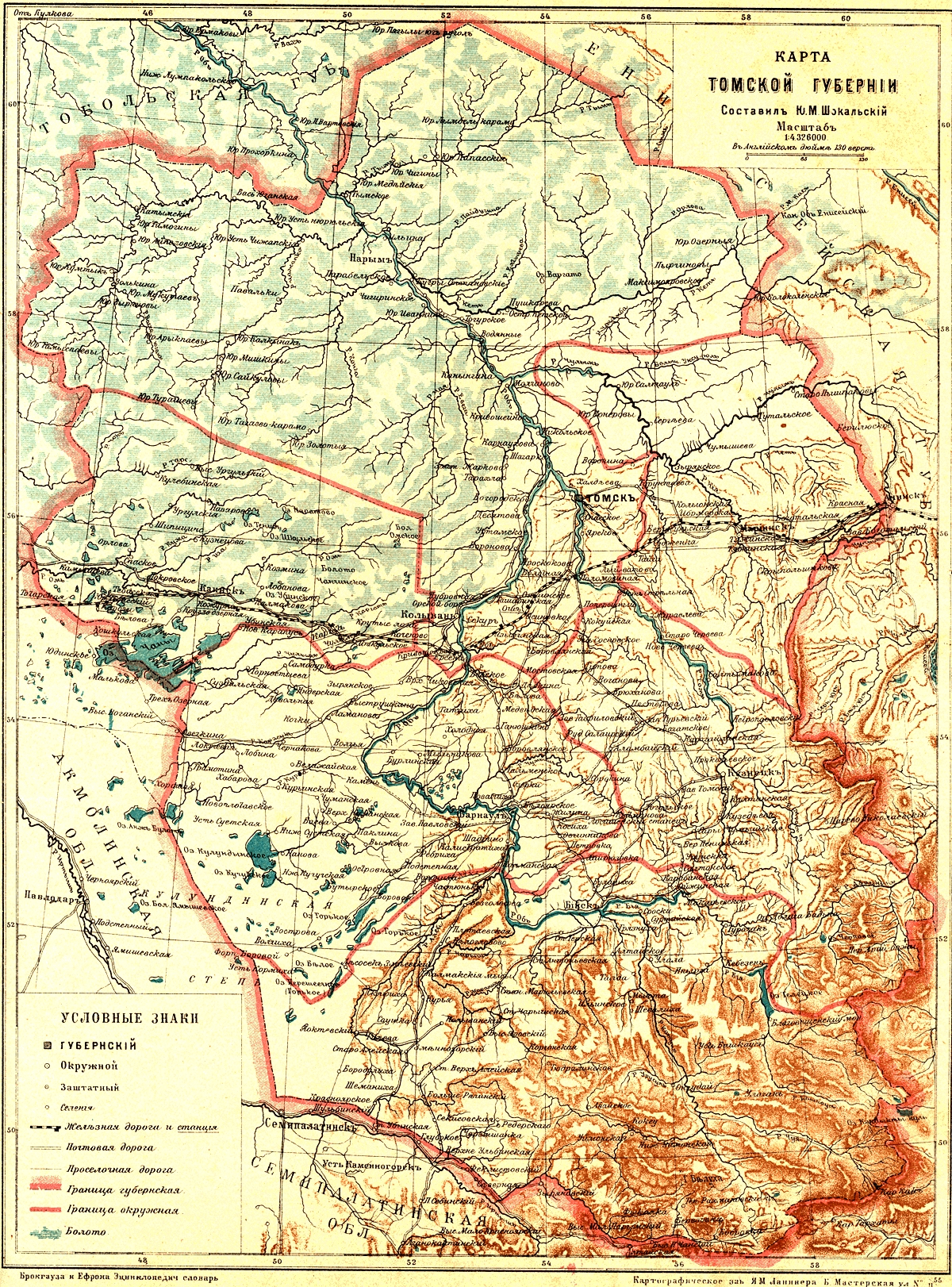 Illustration from Brockhaus and Efron Encyclopedic Dictionary (1890—1907)